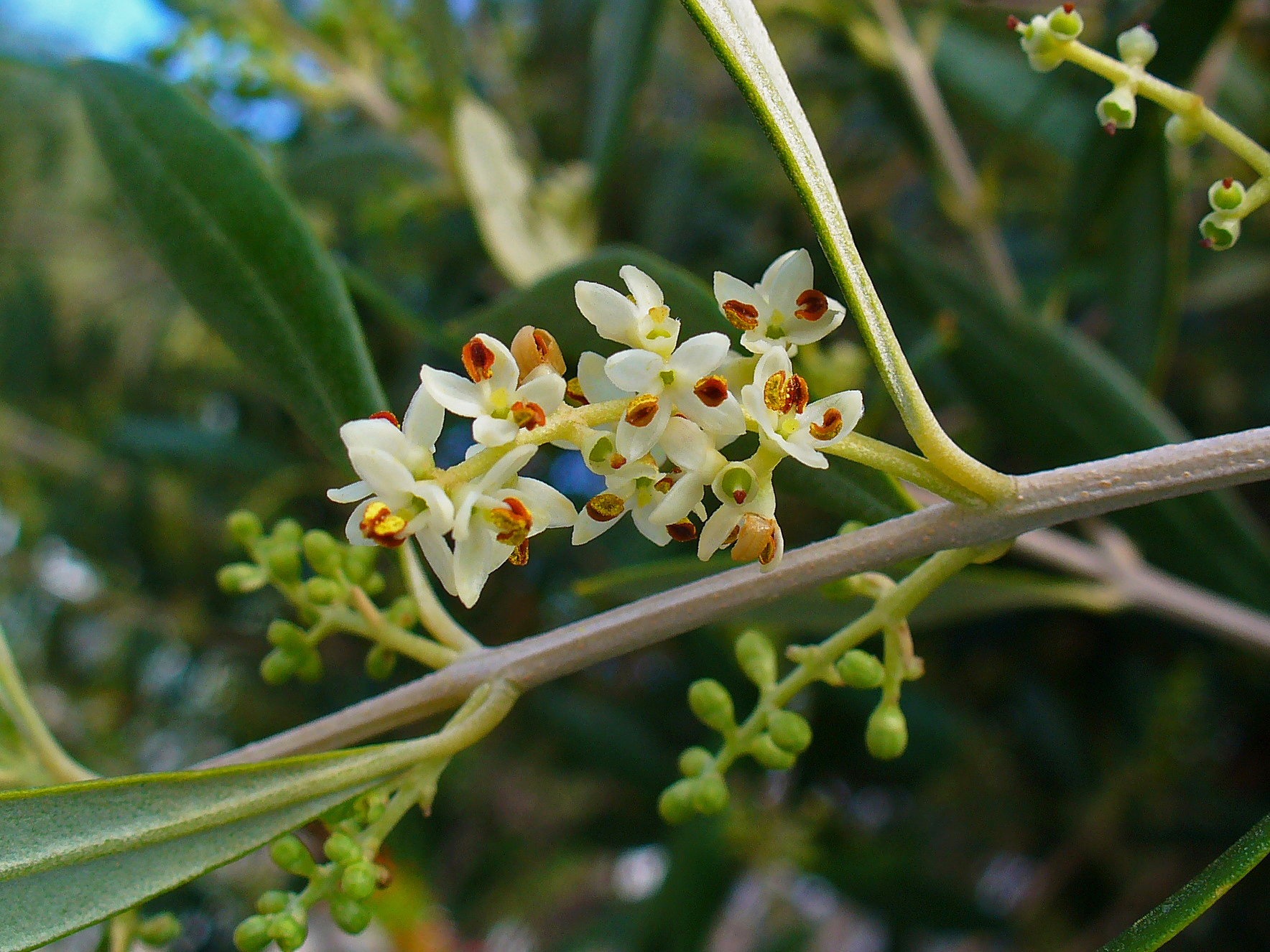 Olive, inflorescence; Chersonisos, Crete, Greece.